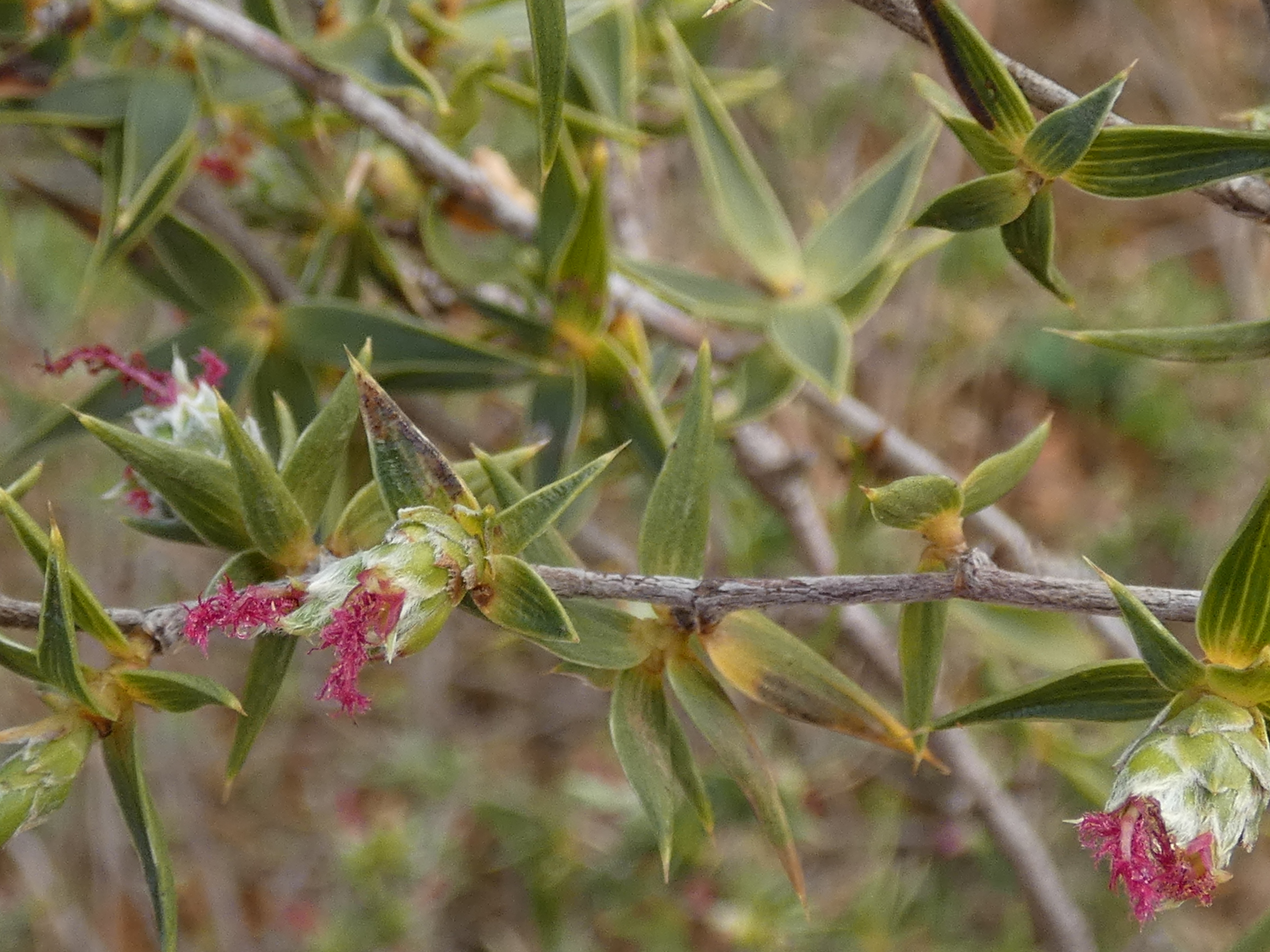 Steekbos Cliffortia ruscifolia, photographed on the Gifberg